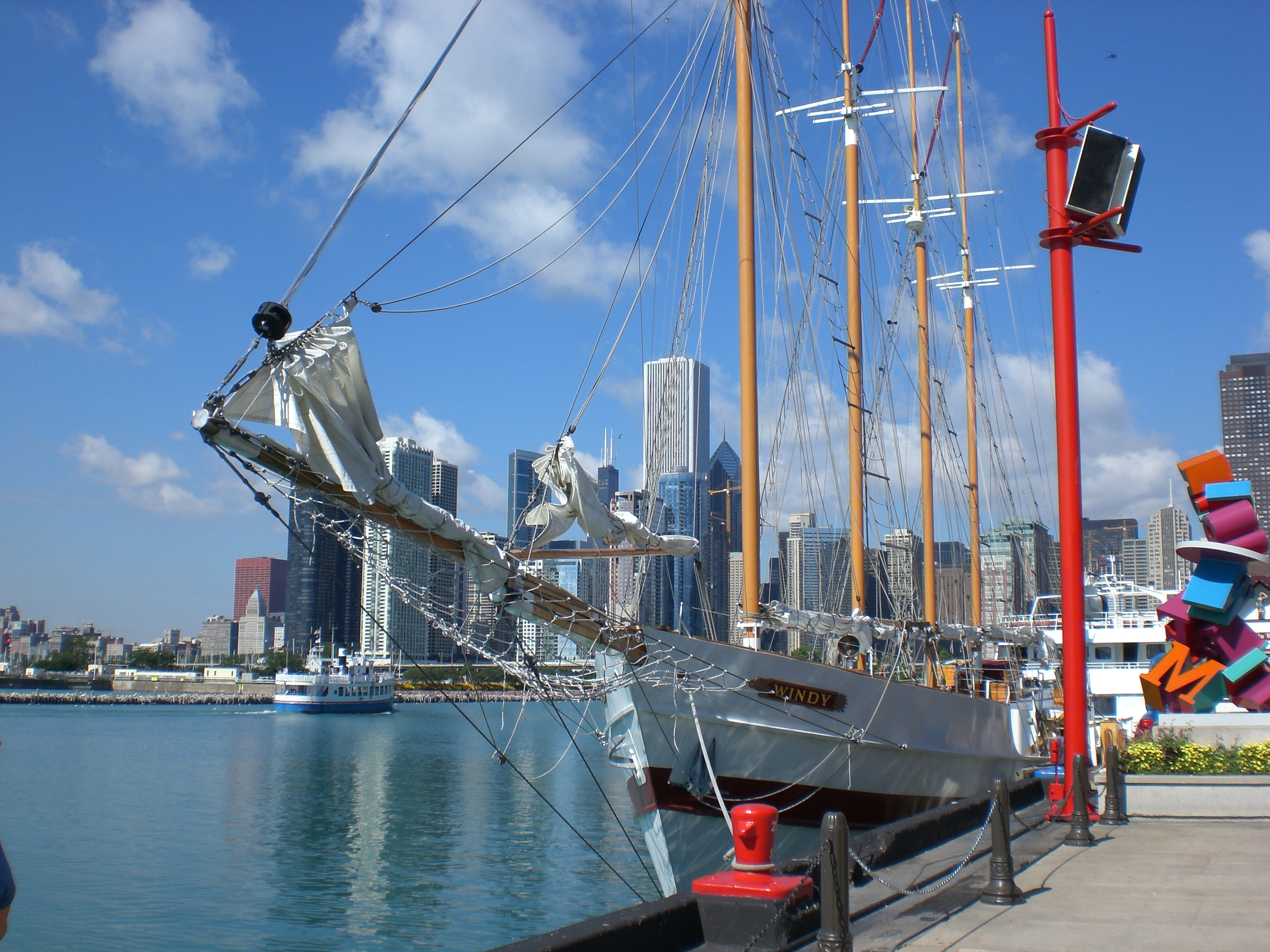 View from the Navy Pier in Chicago (Illinois, USA) looking towards the city on a beautiful summer's day.